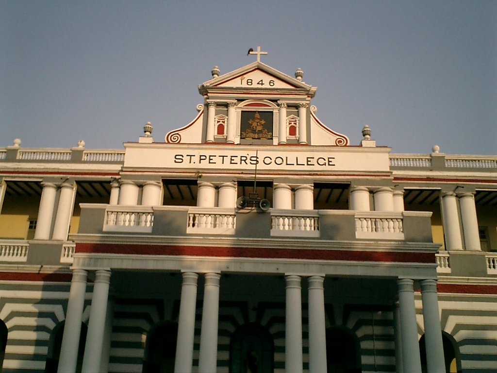 front view of St. Peters's College, Agra's main building (senior block)